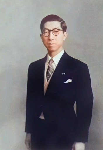 Prince Takahito-Mikasa in 1958. I colorized the picture.